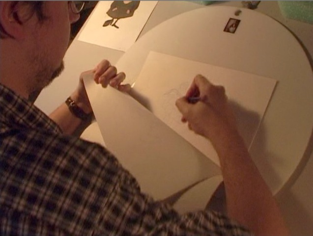 Chomet